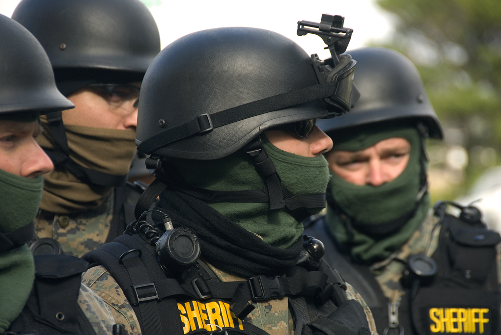 Marion County SWAT Team members assess the situation as part of the exercise.